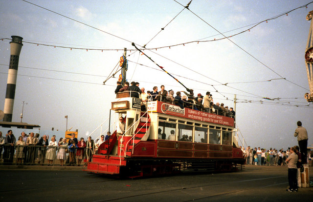 'Dreadnought' car No 59 Blackpool Tramway centenary 1985